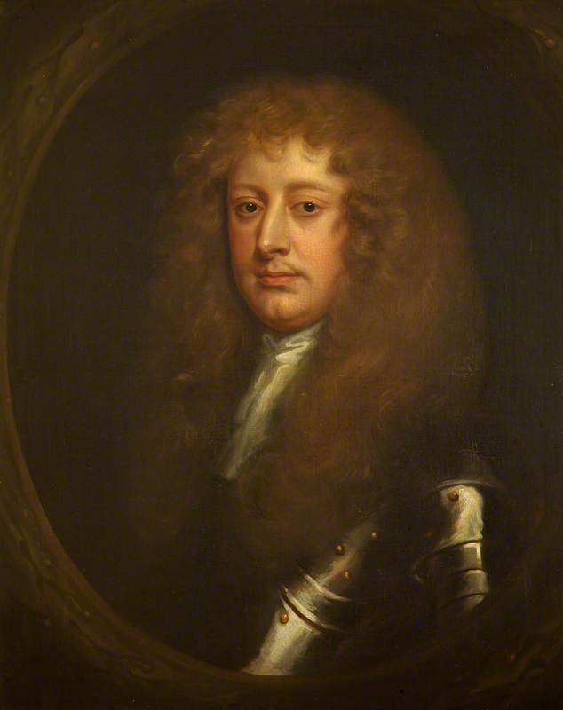 NT; (c) National Trust, Lacock Abbey, Fox Talbot Museum and Village; Supplied by The Public Catalogue Foundation